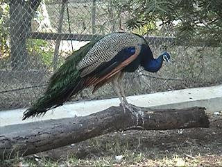 Photo taken by author